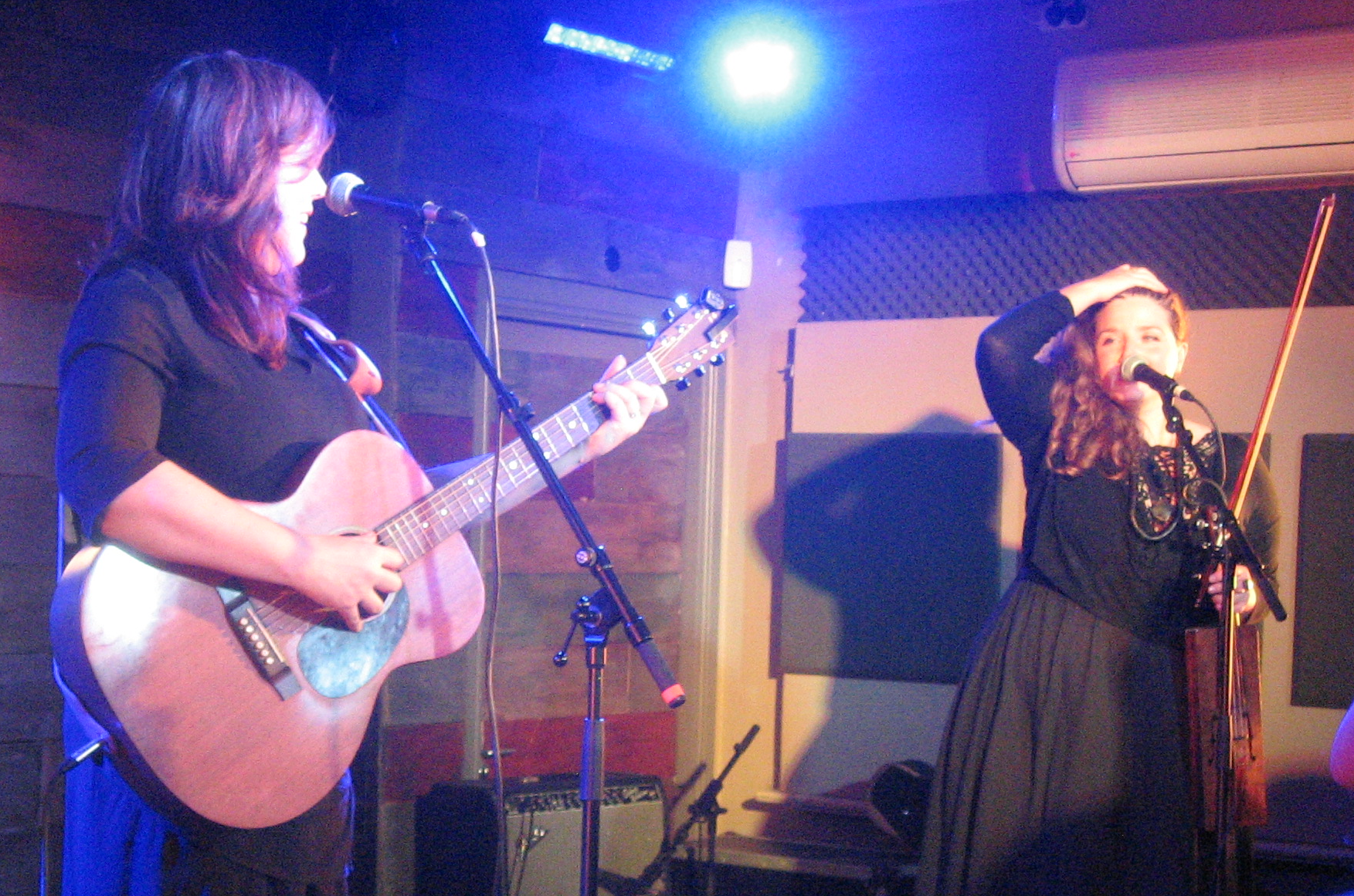 Samantha Parton and Jolie Holland performing at the Portland Arms, Cambridge, UK; 16th. January 2017.